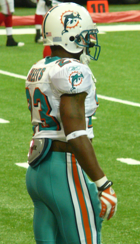 If used somewhere other than Wikipedia, Nelson, by name.